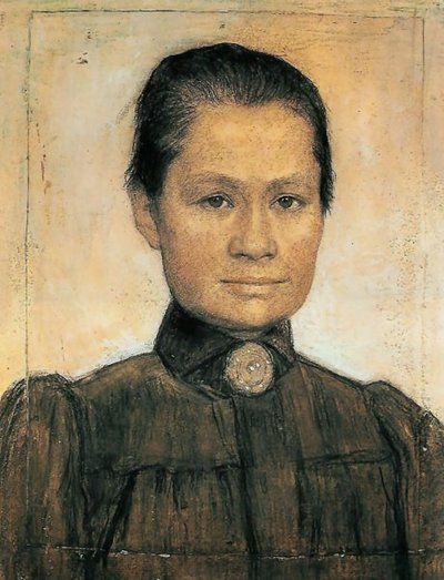 the artist's wife